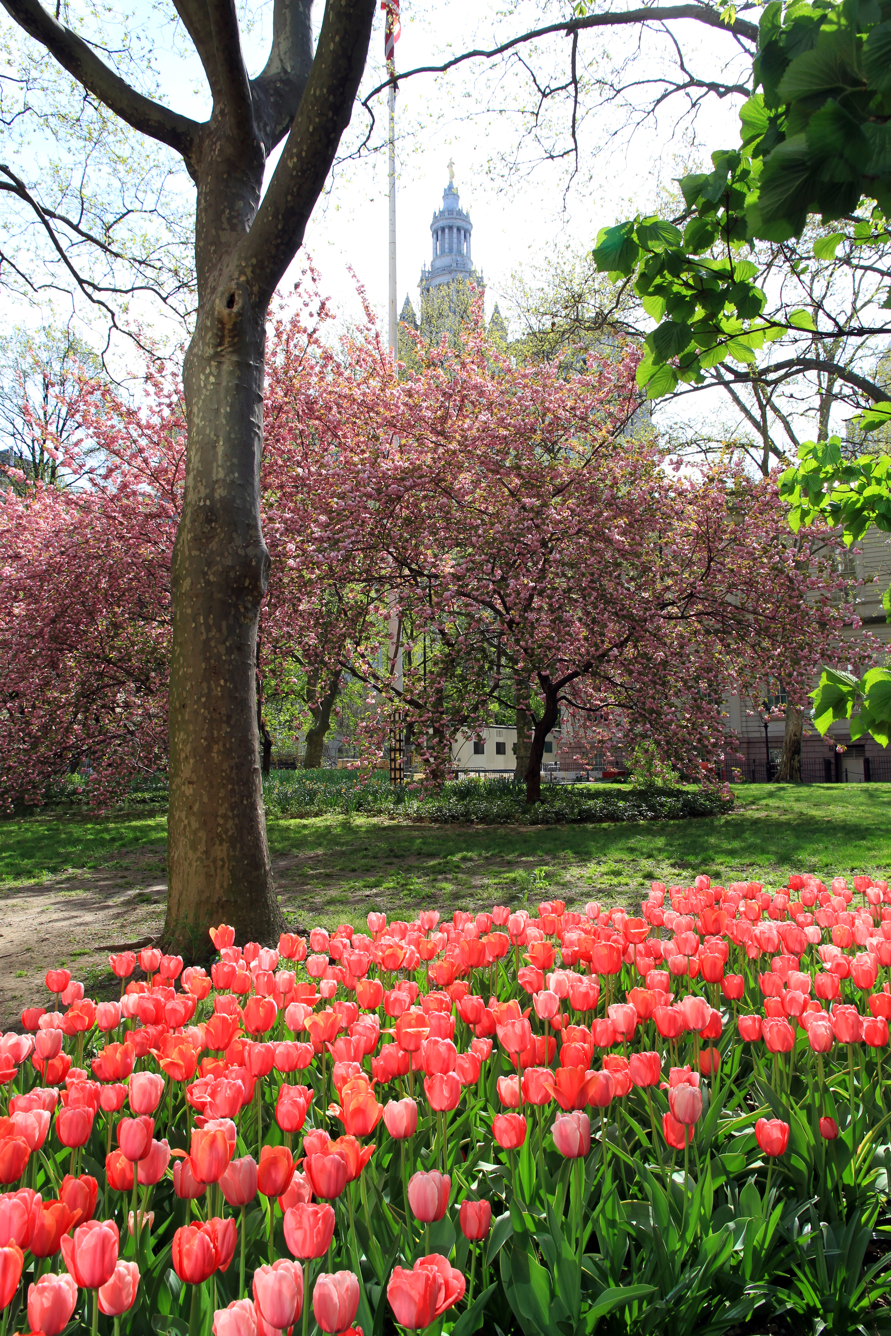 City Hall Park